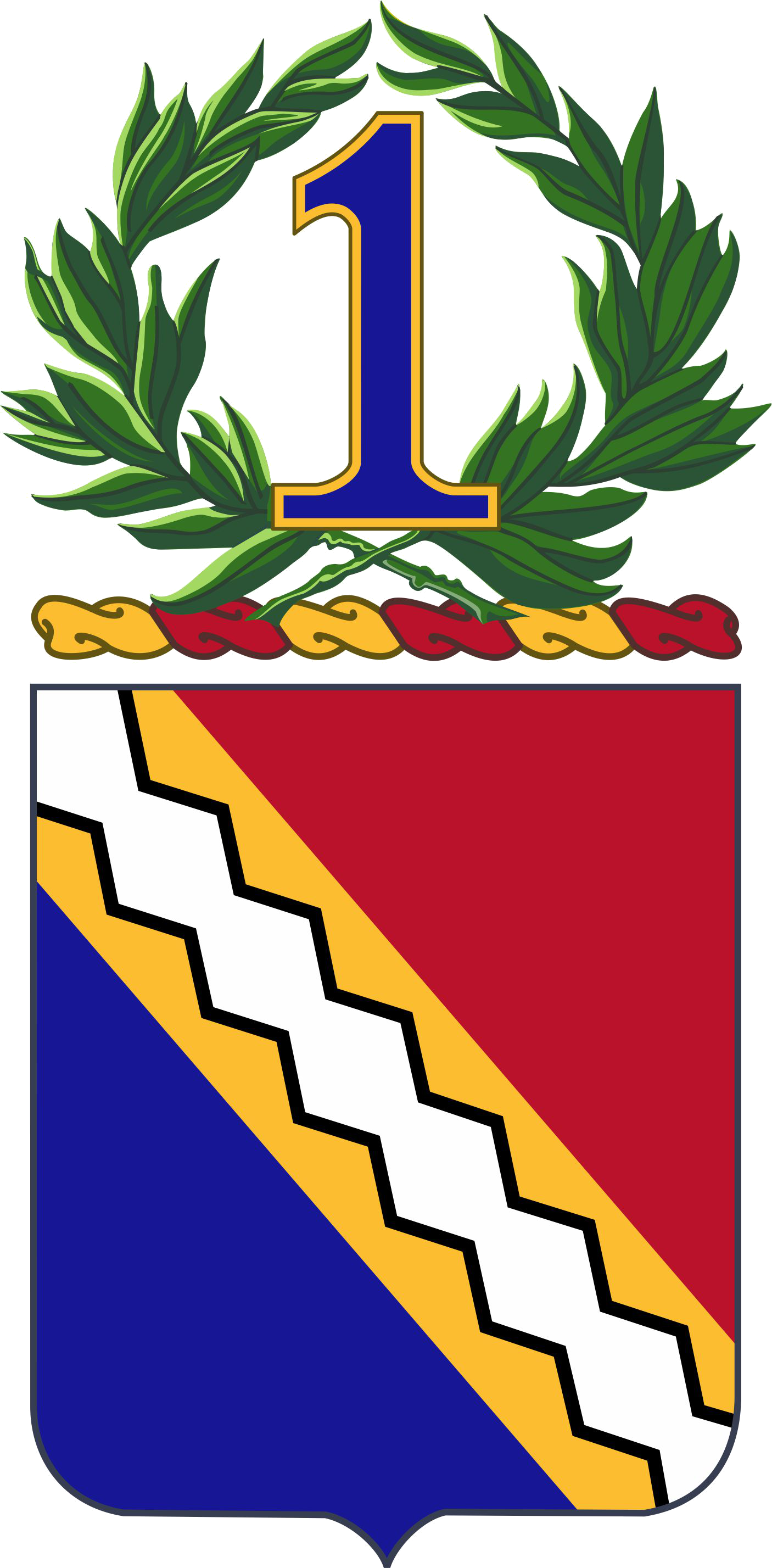 Coat of Arms of the 1st Infantry Regiment (United States). Description/Blazon Shield Per bend Gules and Azure, on a bend or a bendlet Argent indented of seven and counter indented of the same fimbriated Sable. Crest On a wreath of the colors Or and Gules the Arabic numeral "1" Azure fimbriated Or within a garland of laurel Vert. Motto SEMPER PRIMUS (Always First). Symbolism The regiment was organized in 1791 as the 2d Infantry. In 1792 it was designated as the Infantry of the 2d Sub-legion. In 1796 it was again designated as the 2d Infantry. In the consolidation and reorganization of the Army in 1815 it was designated the 1st Infantry. The regiment has a history of fighting in all the wars of the country and a logical grouping divides its campaigns or wars into 14 groups. These are heraldically represented by the 14 notches on the diagonal band across the shield. The upper part of the shield is red, this was the color of the old 2d Sub-legion. The lower part is blue the modern Infantry color. The crest with the numeral within the laurel wreath of Victory and the motto long in use by the regiment are self-explanatory. Background The coat of arms was originally approved on 15 March 1922. It was amended on 10 August 1959. On 8 Nov 1968 the coat of arms was amended to correct the wording in the blazon of the shield and motto. It was amended on 4 Nov 1999 to correct the blazon.